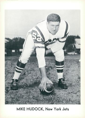 A promotional image of New York Jets player Mike Hudock.